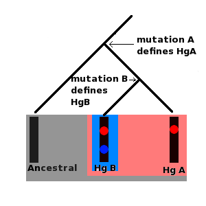 mtDNA and Y chromosome mutations schematic